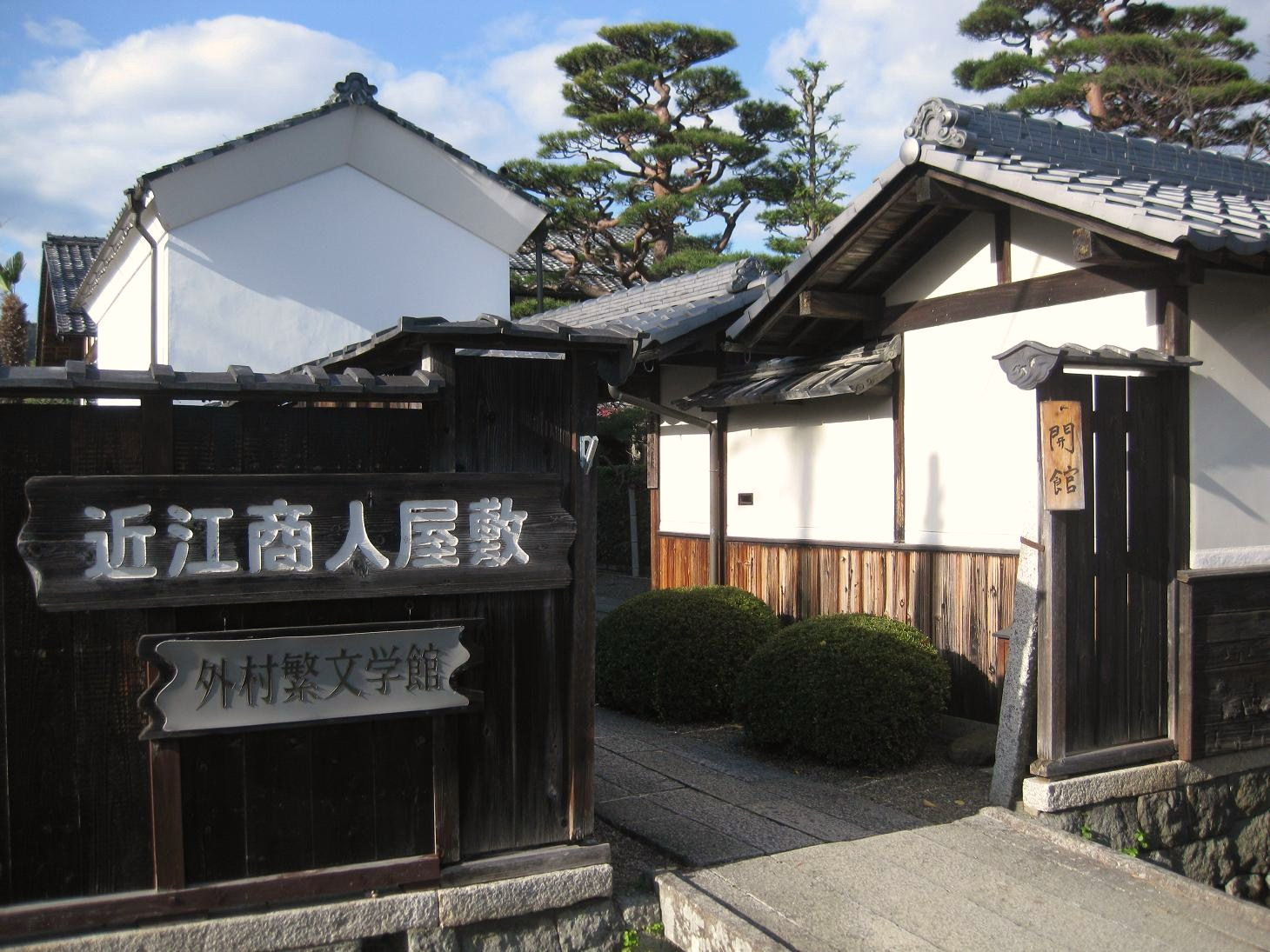 A Japanese novelist Shigeru Tonomura's home in Gokashokondo-cho, Higashiomi, Shiga, Japan